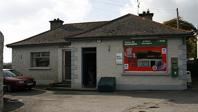 Rosegreen Post Office The village of Rosegreen is about 5km S. of Cashel, Co Tipperary.